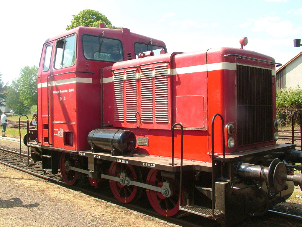 diesel engine DL2 of the Minden museum railway in Minden-Oberstadt station, Germany